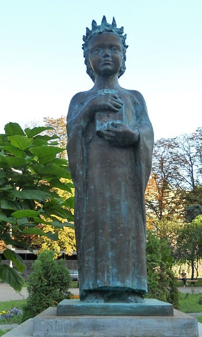 Анна Київська (пам'ятник у Києві, відкритий у 2016 році). Скульптор: Костянтин Скритуцький